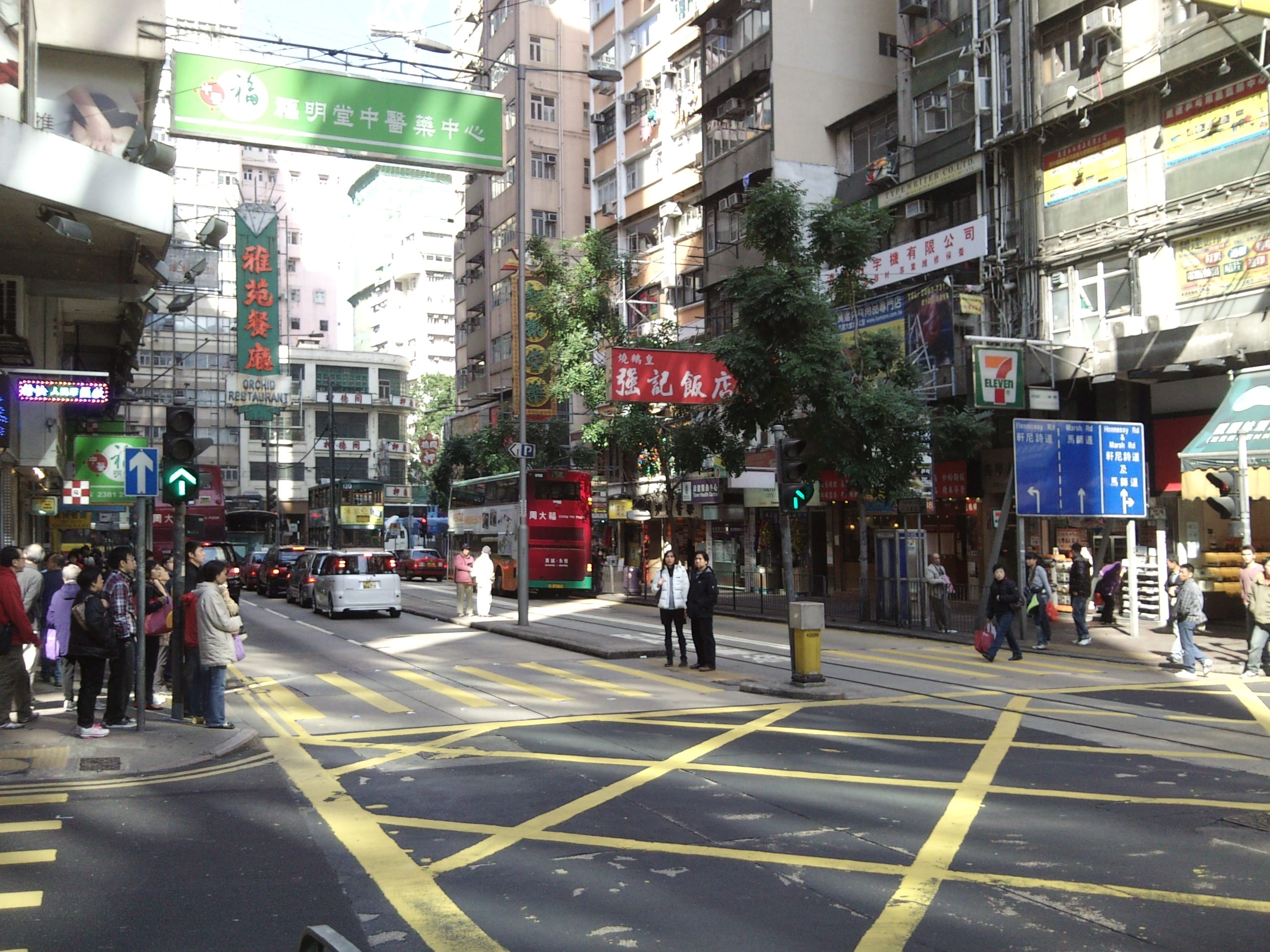 Tin Lok Lane near Wan Chai Road